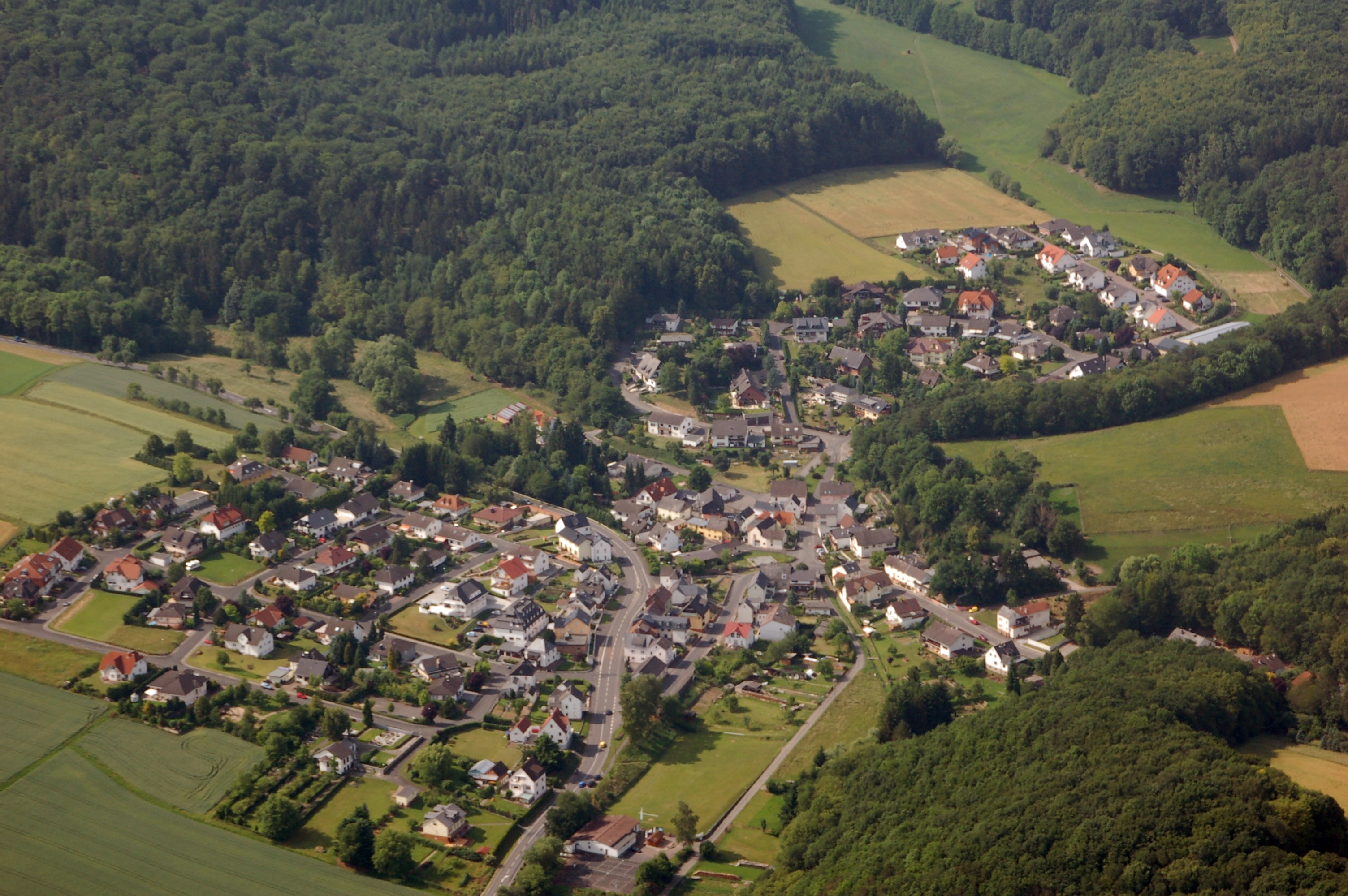 Aerial photograph of Hambach, Rhineland-Palatinate, Germany